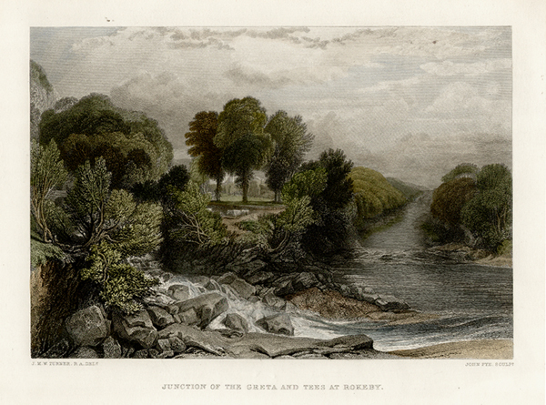 [1] with later hand-colouring.